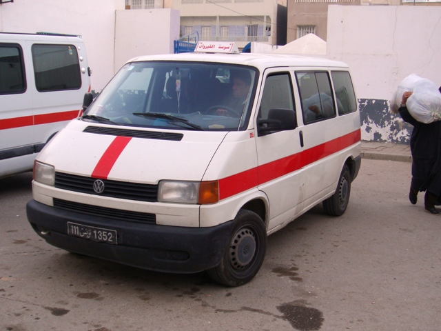 Louage, a shared taxi in Tunisia